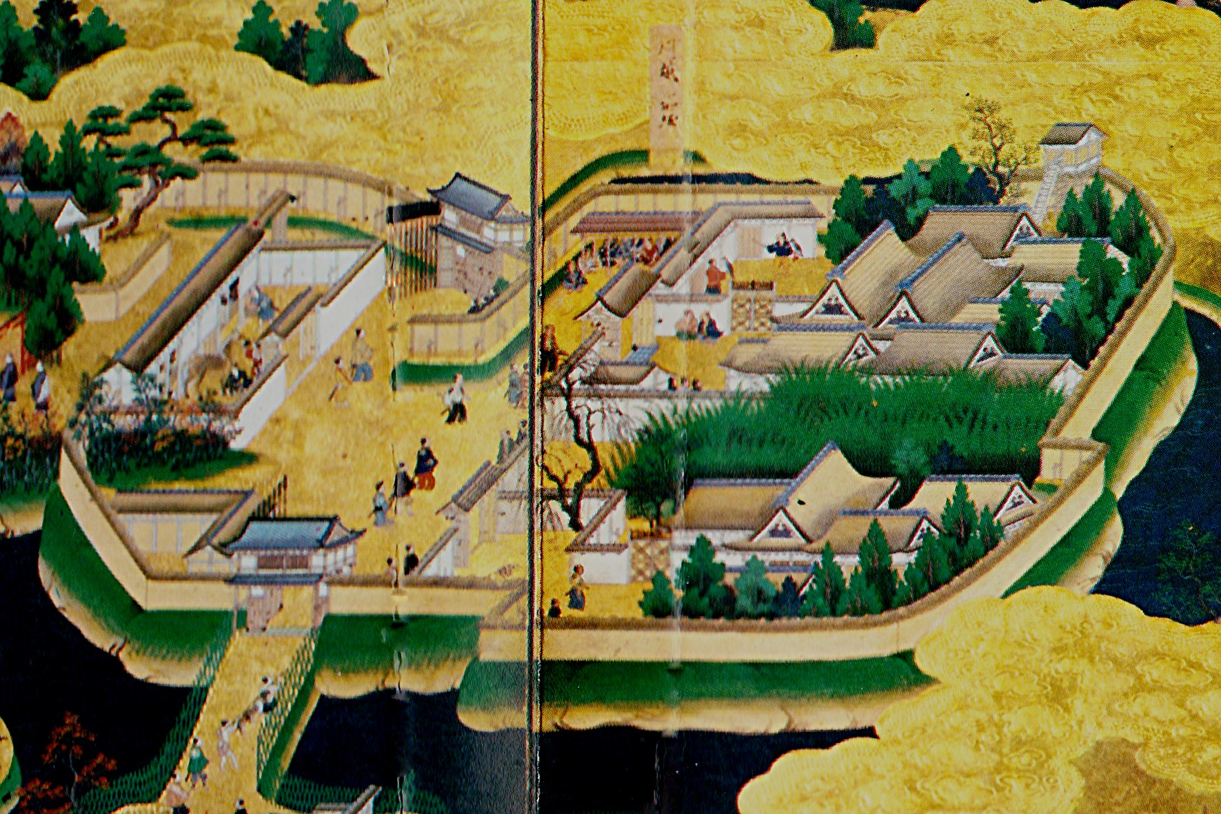 Kawagoe castle on Edo-zu byobu